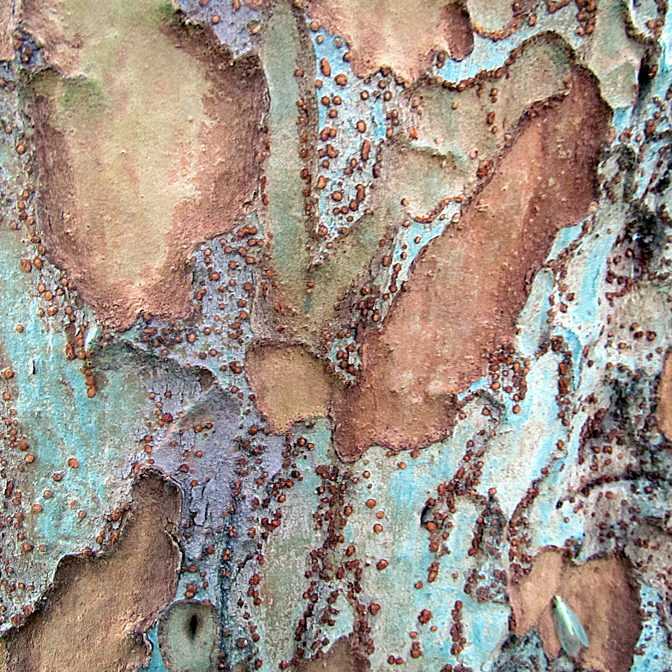 Ulmus parvifolia bark